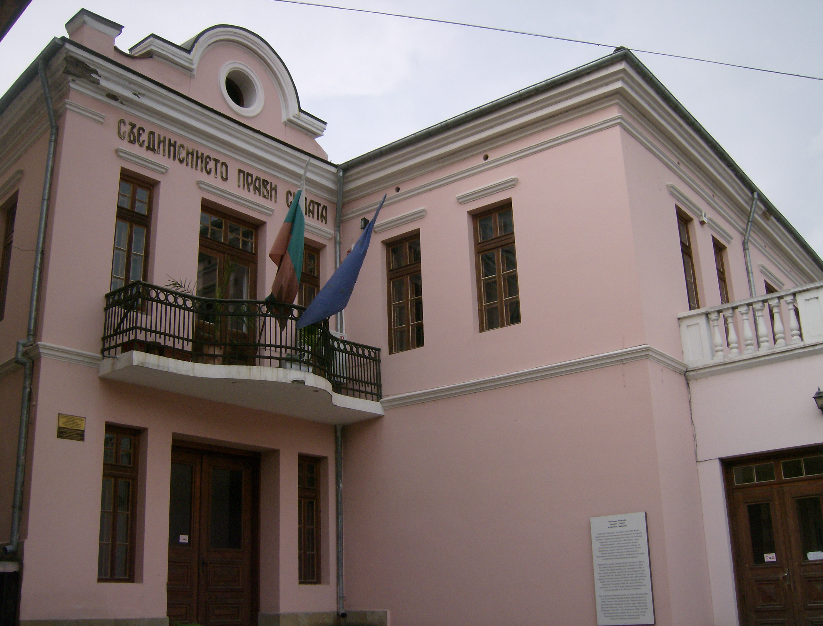 Chitalishte Nadezda, Veliko Turnovo